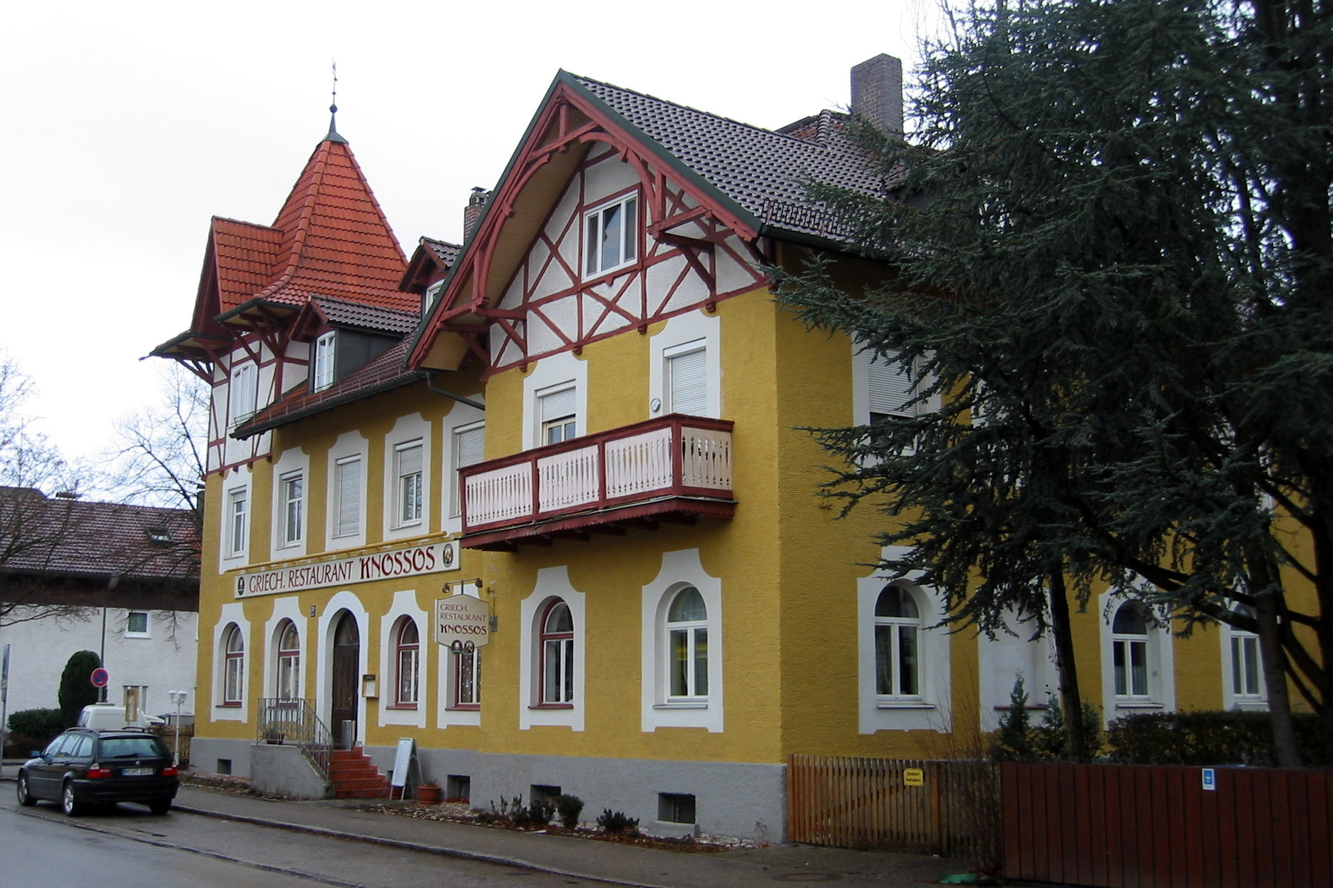 Krailling Hof